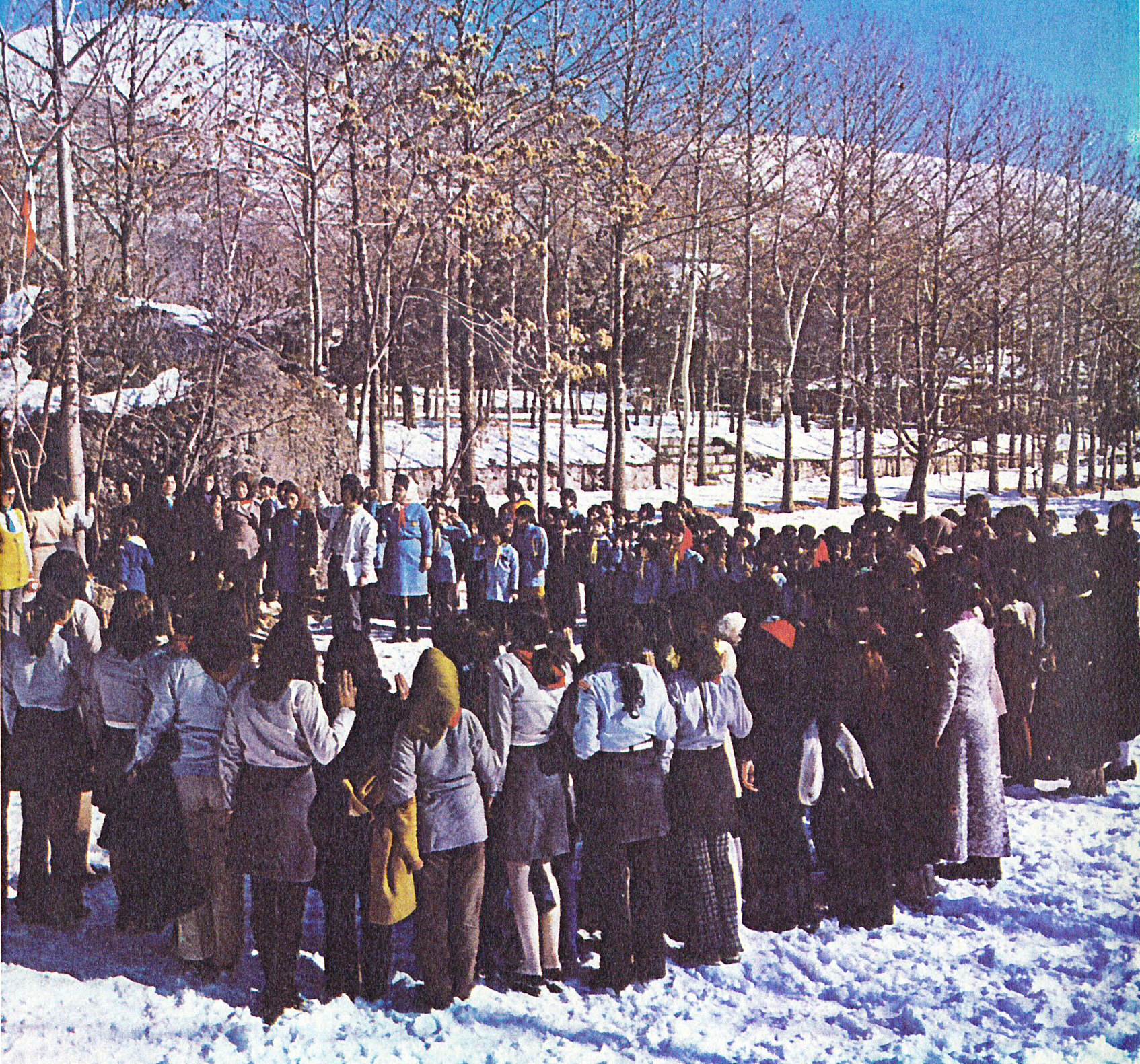 Girl Scouts get-together in Tehran, Iran